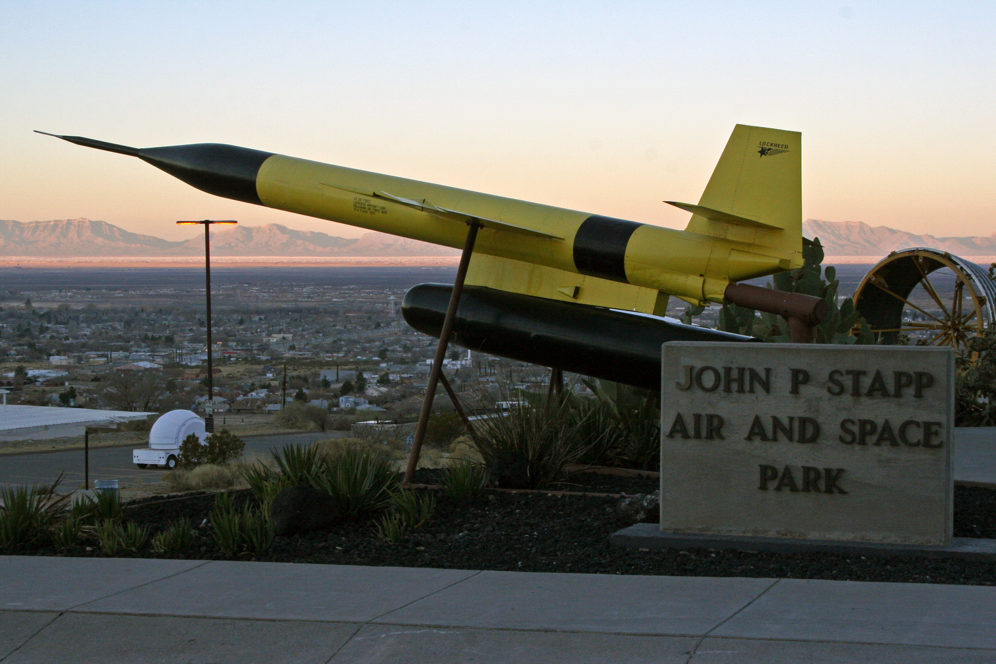 A Lockheed X-7 on display at the John P Stap Air and Space Park near Alamogordo, New Mexico, USA